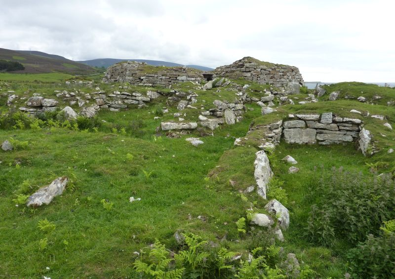 Cinn Trolla Broch, Sutherland, Scotland